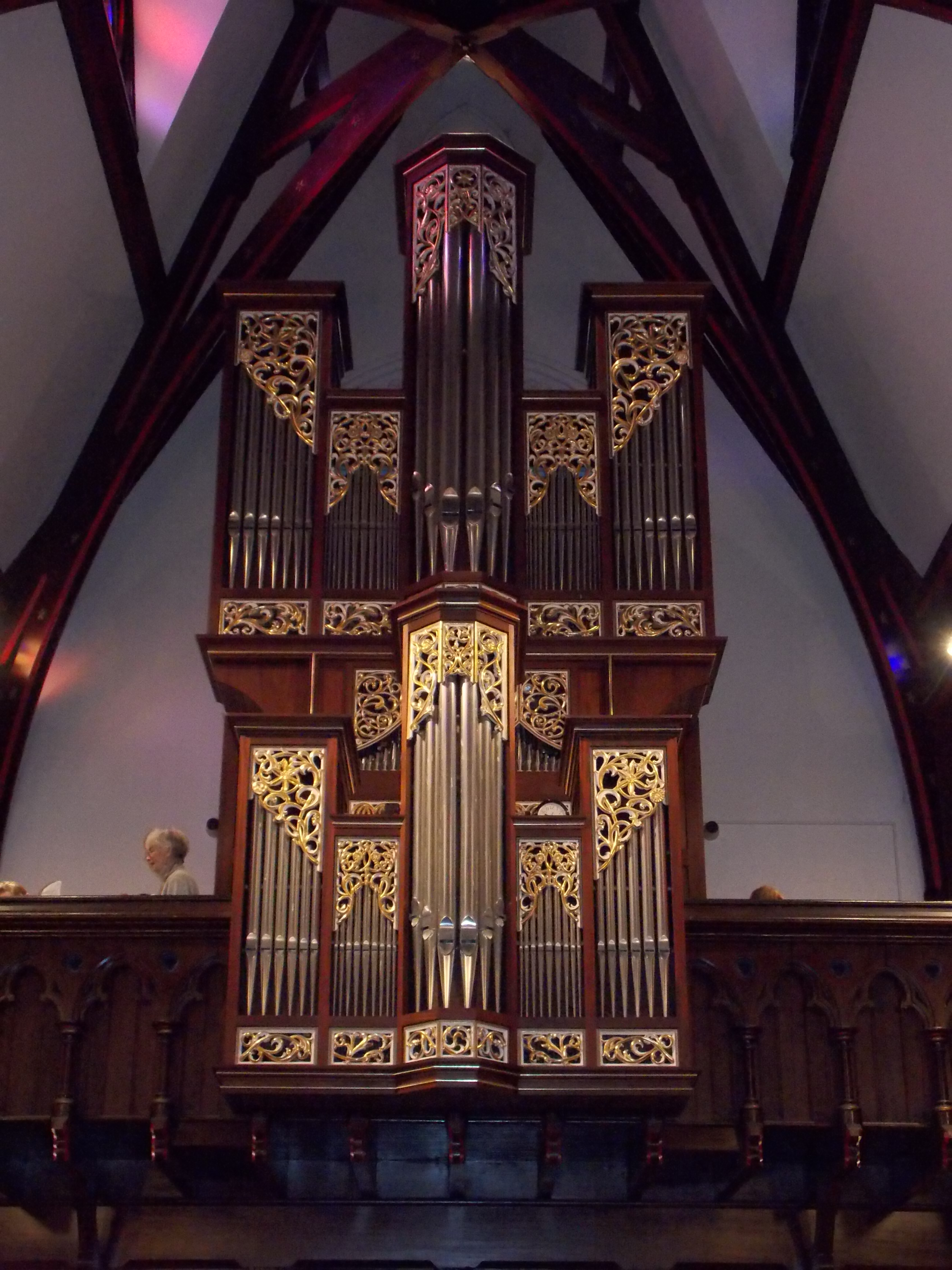 The pipe organ in Trinity Episcopal Cathedral, Davenport, Iowa